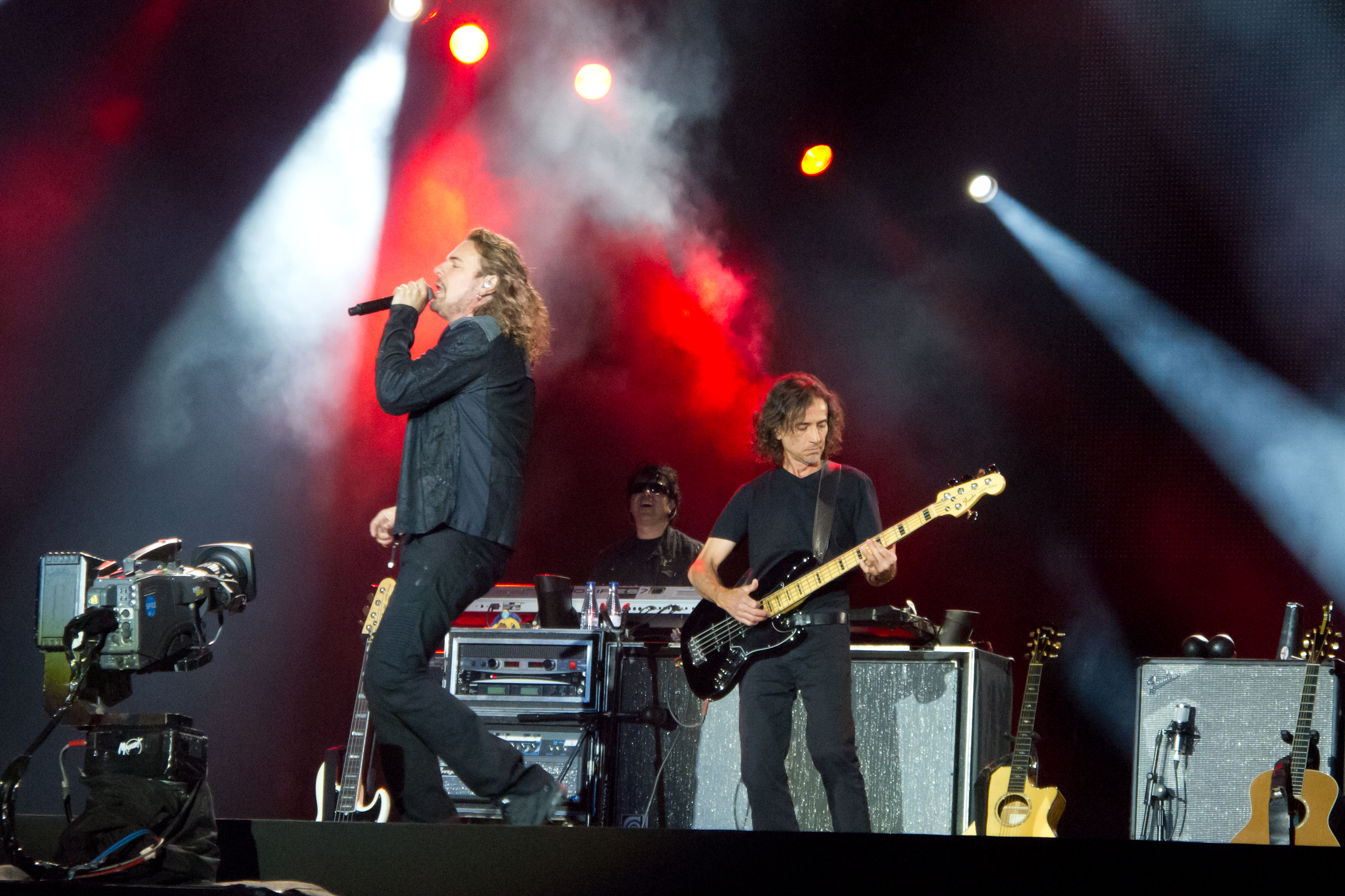 Maná in concert in Rock in Rio in Madrid in 2012.